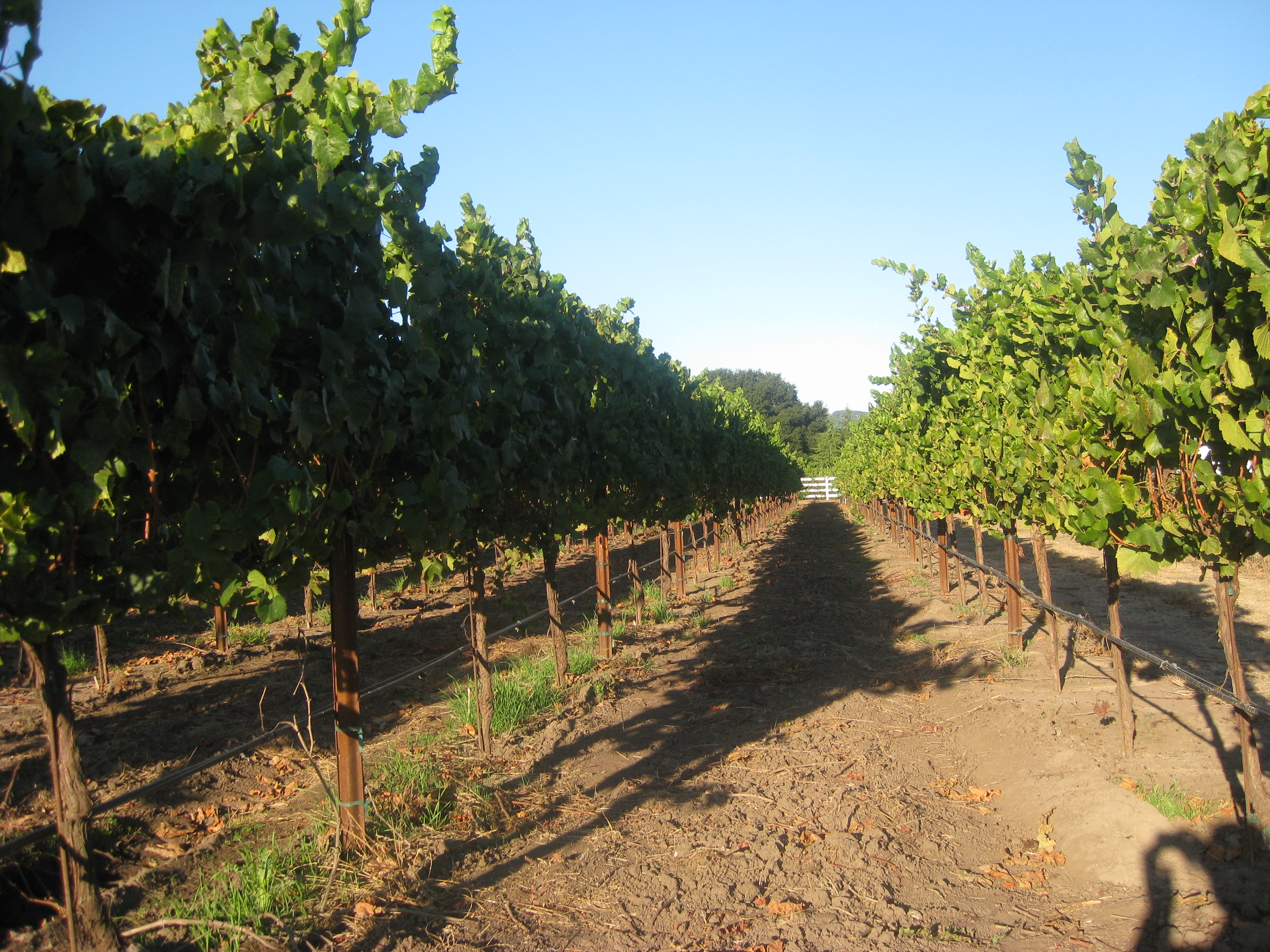 Grapevines in the California wine region of Sonoma county managed by the Viticulture department of the University of California-Davis